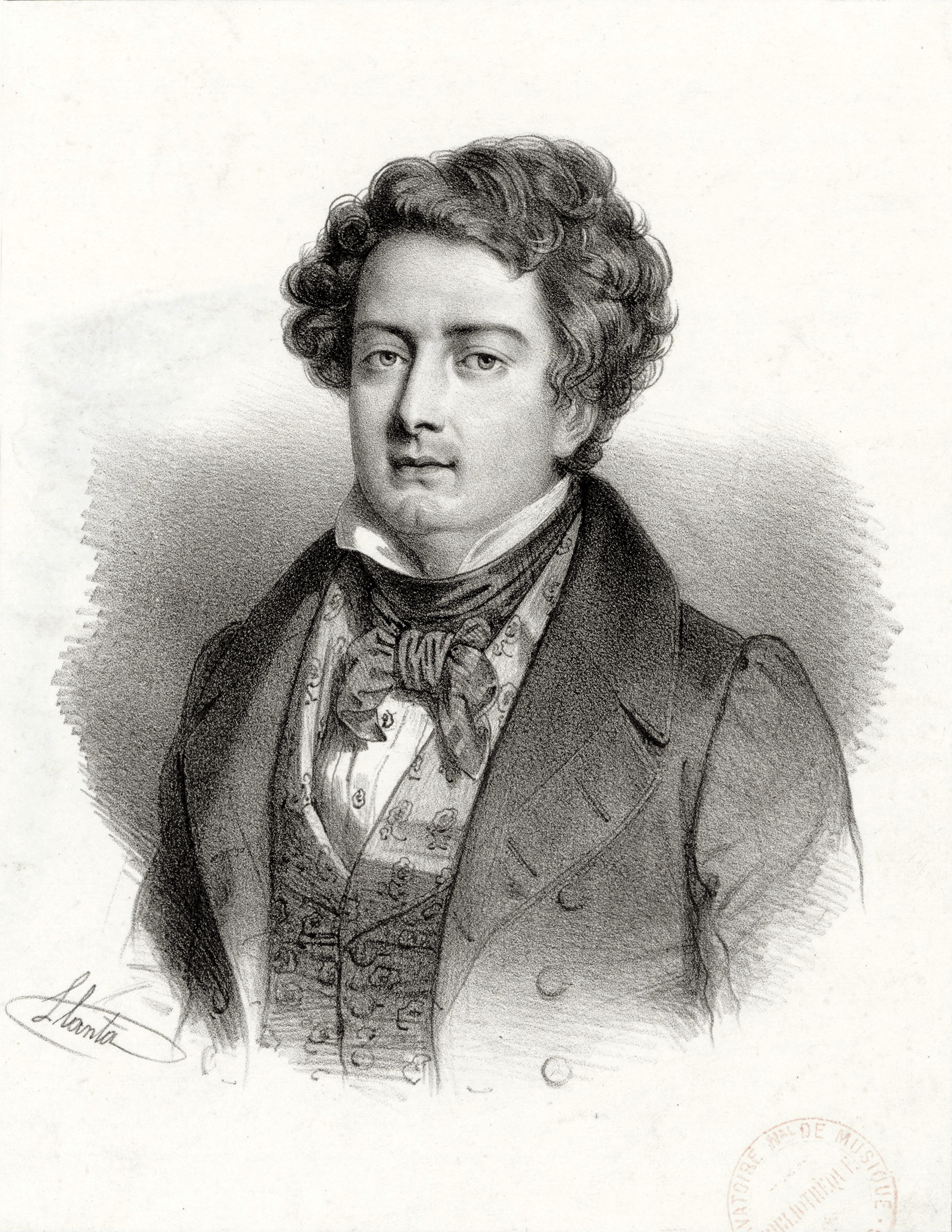 Drawing of Adolphe Nourrit (1802–1839), French tenor